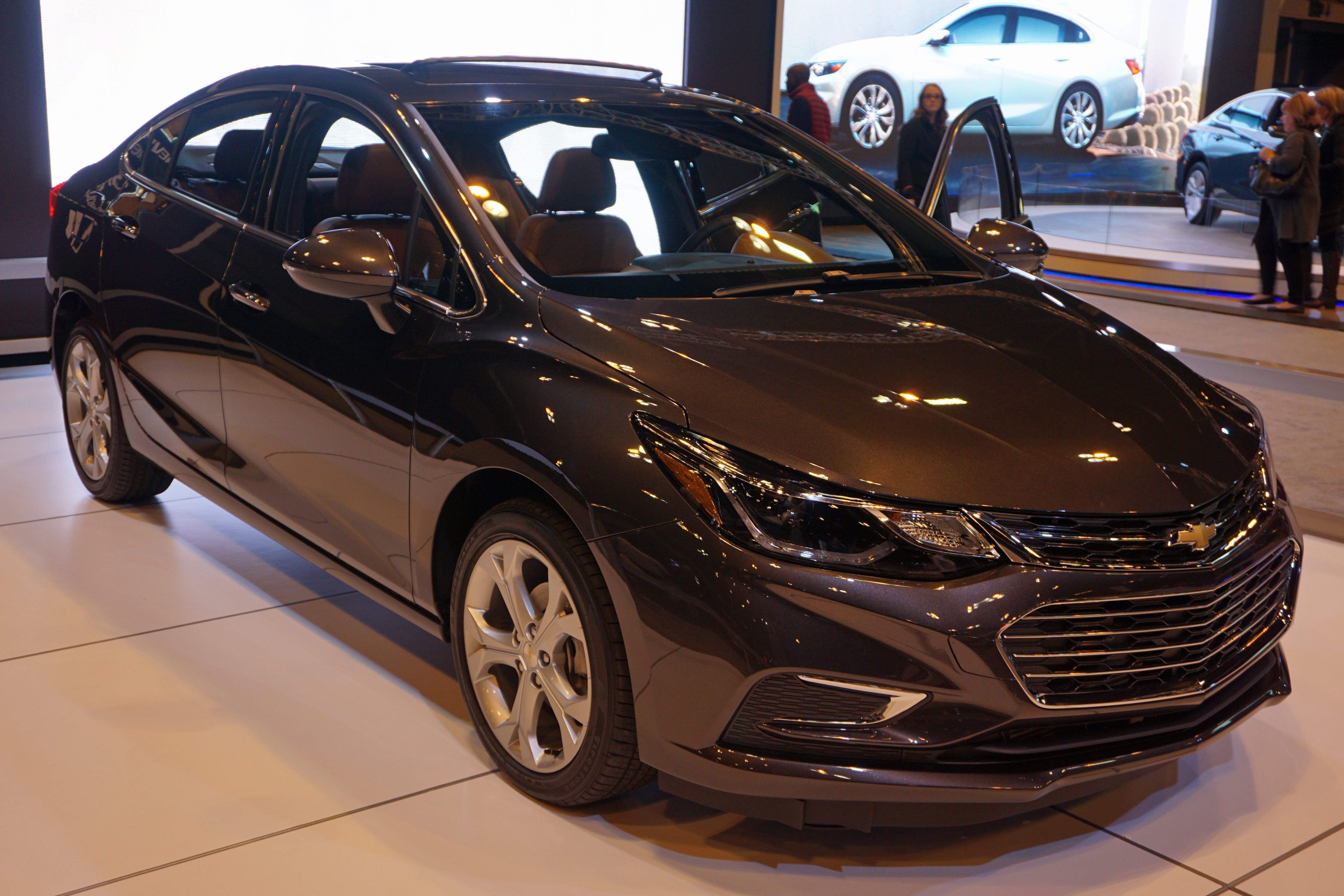 A 2016 Chevrolet Cruze at the St. Louis Auto Show